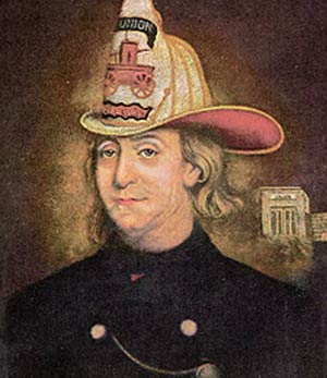 This 1850 painting by Charles Washington Wright (1824-1869) portrays Franklin in a fire helmet of the Union Fire Company, which he founded. Benjamin Franklin, The Fireman is on display at The Smithsonian's National Museum of American History.